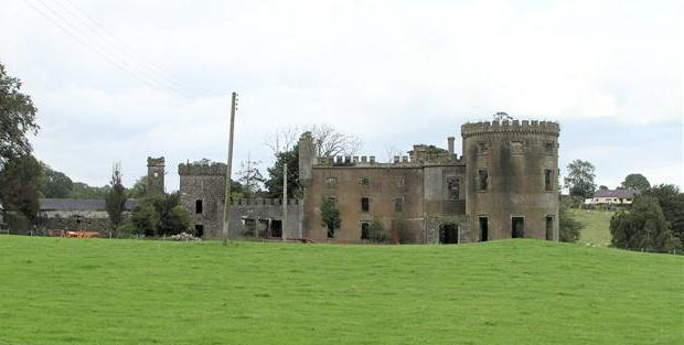 Killwaughter Castle. On multimap, it is noted as Killwaughter Castle (in ruins), but the townland is referred to as Kilwaughter.